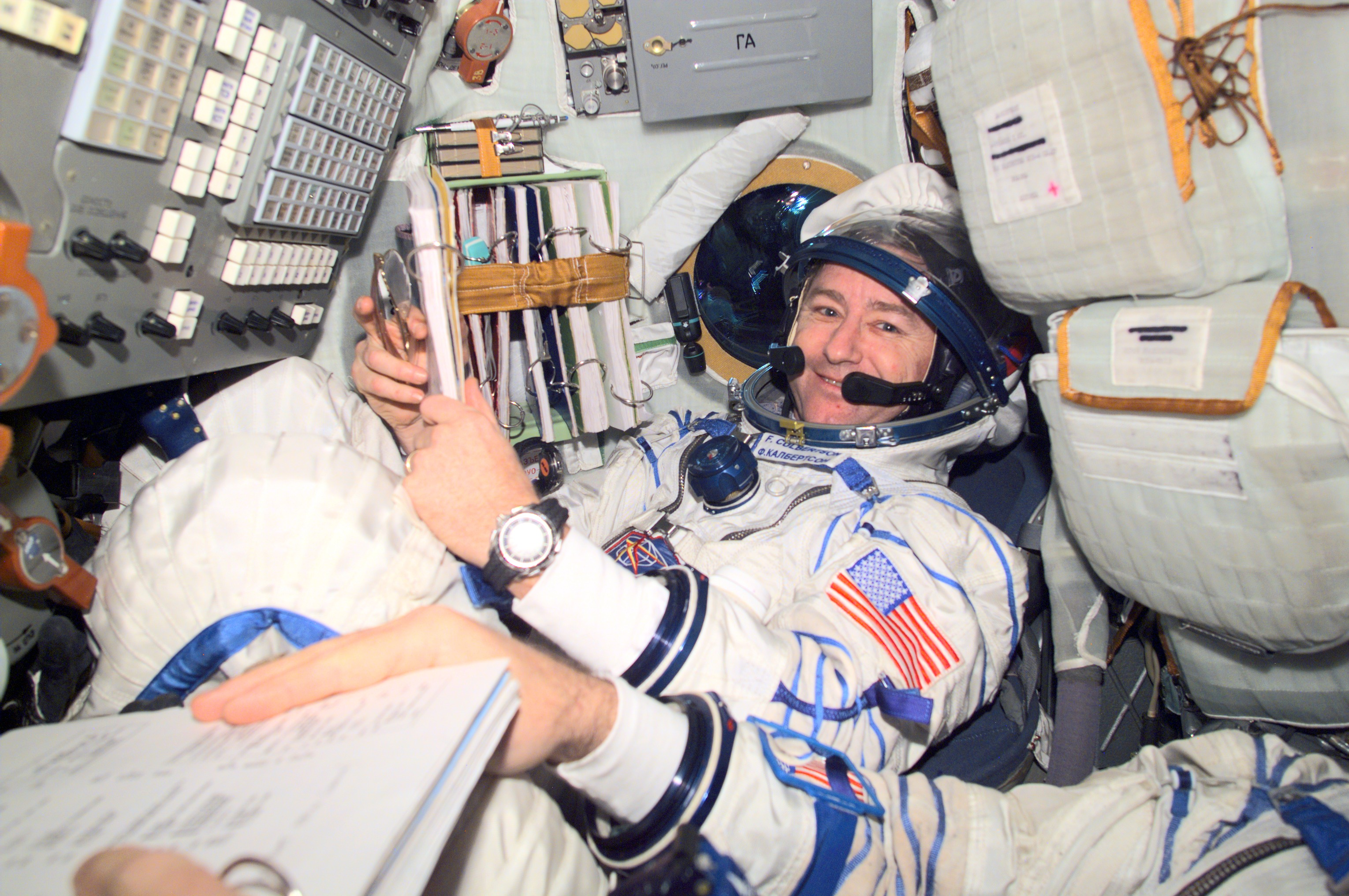 Astronaut Frank L. Culbertson, Expedition Three mission commander, and cosmonaut Vladimir N. Dezhurov (partially out of frame), flight engineer, wearing Russian Sokol suits, are seated in the Soyuz spacecraft that is docked to the International Space Station (ISS). This Soyuz return vehicle will be moved from the Earth-facing port of the Zarya module for the linkup to the new Pirs Docking Compartment. The move of the Soyuz will mark the first time the new Pirs, which arrived at the station September 17, 2001, will serve as a docking port. The Soyuz will be shifted to prepare for the arrival of a new Soyuz return craft, to be launched October 21, 2001 from the Baikonur Cosmodrome in Kazakhstan. The Soyuz can serve as a crew return vehicle at the station for a maximum of about six months. Dezhurov represents Rosaviakosmos. This image was taken with a digital still camera.